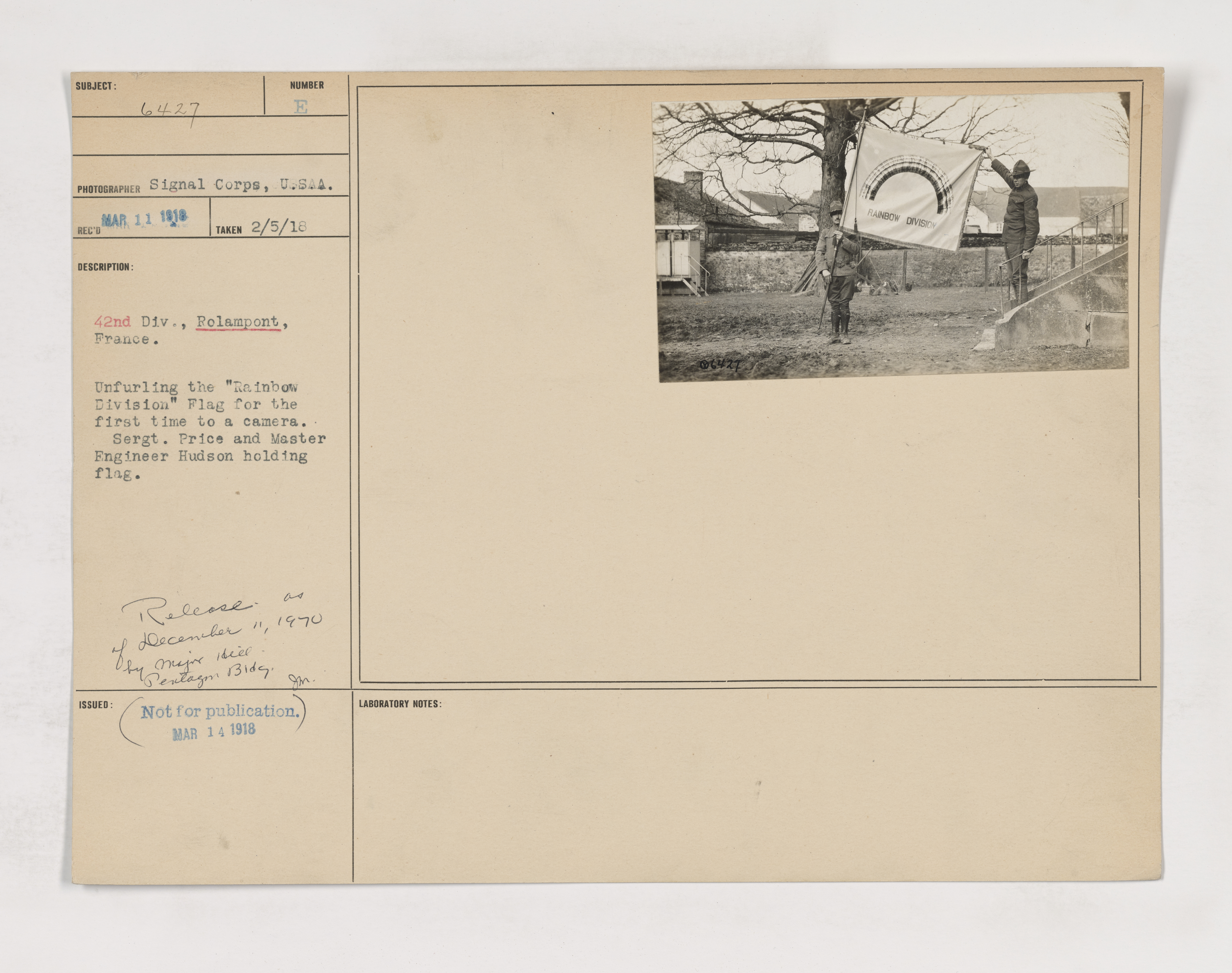 Scope and content: Sgt Price and Master Engineer Hudson holding flag, Rolampont, France